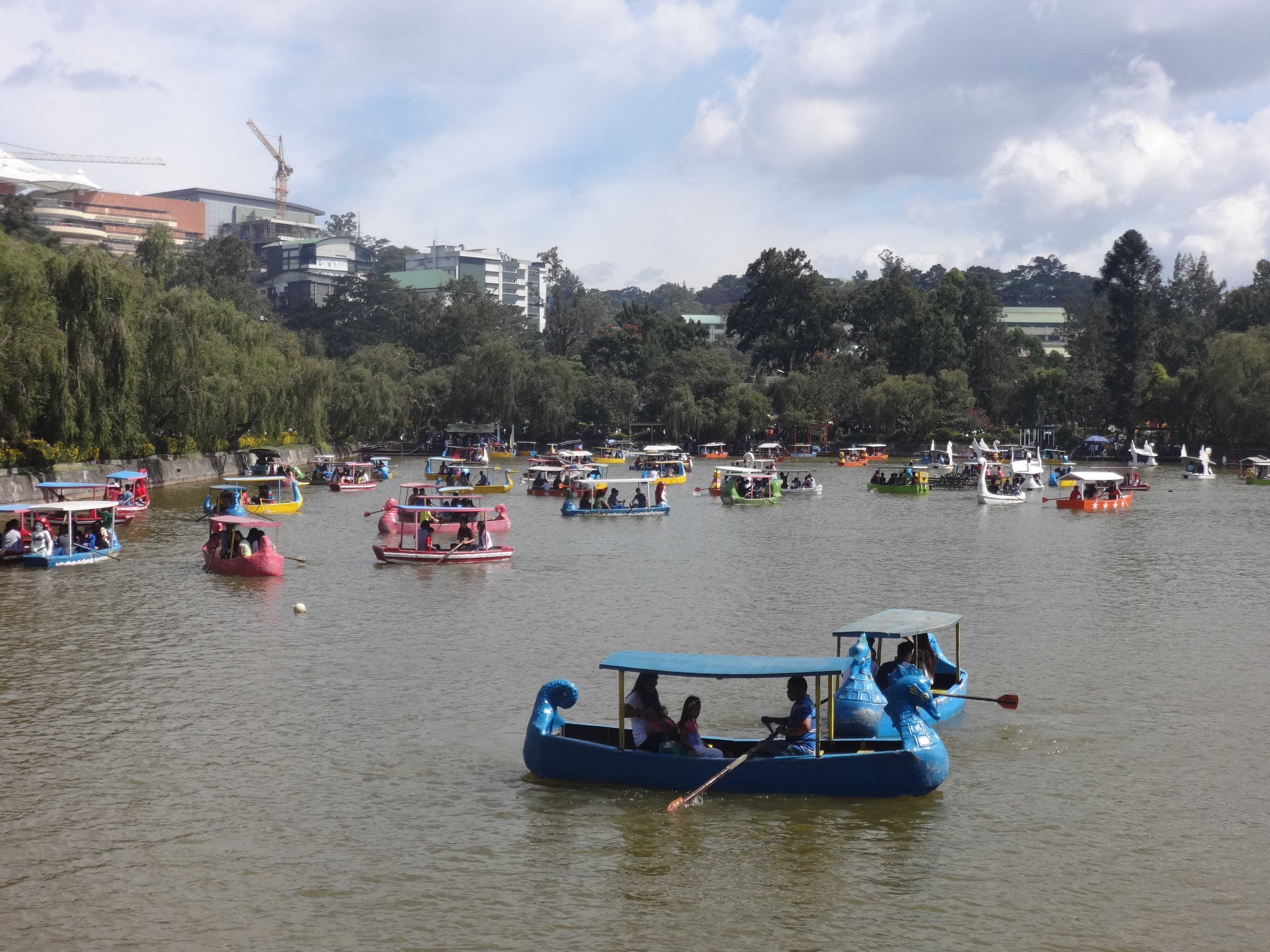 Lake area of Burnham Park Reservation in Baguio City, Benguet